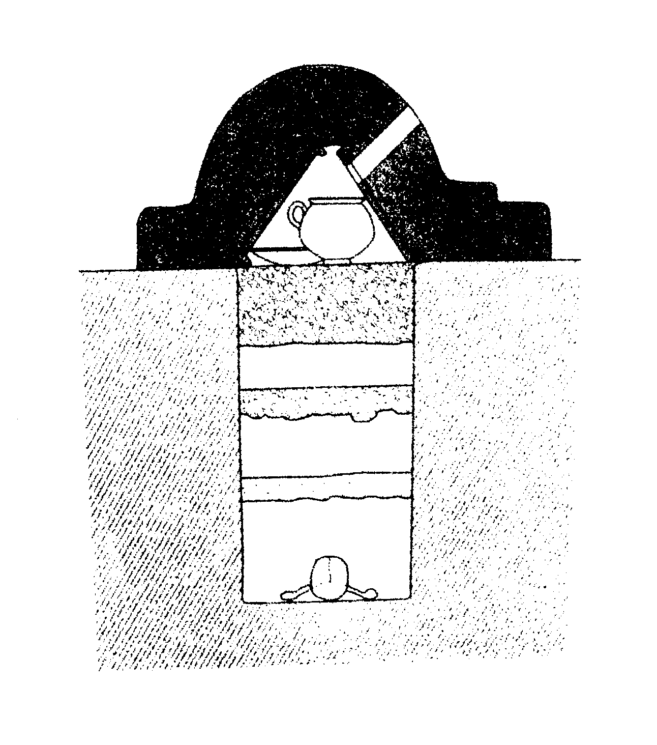 Cupa in section.